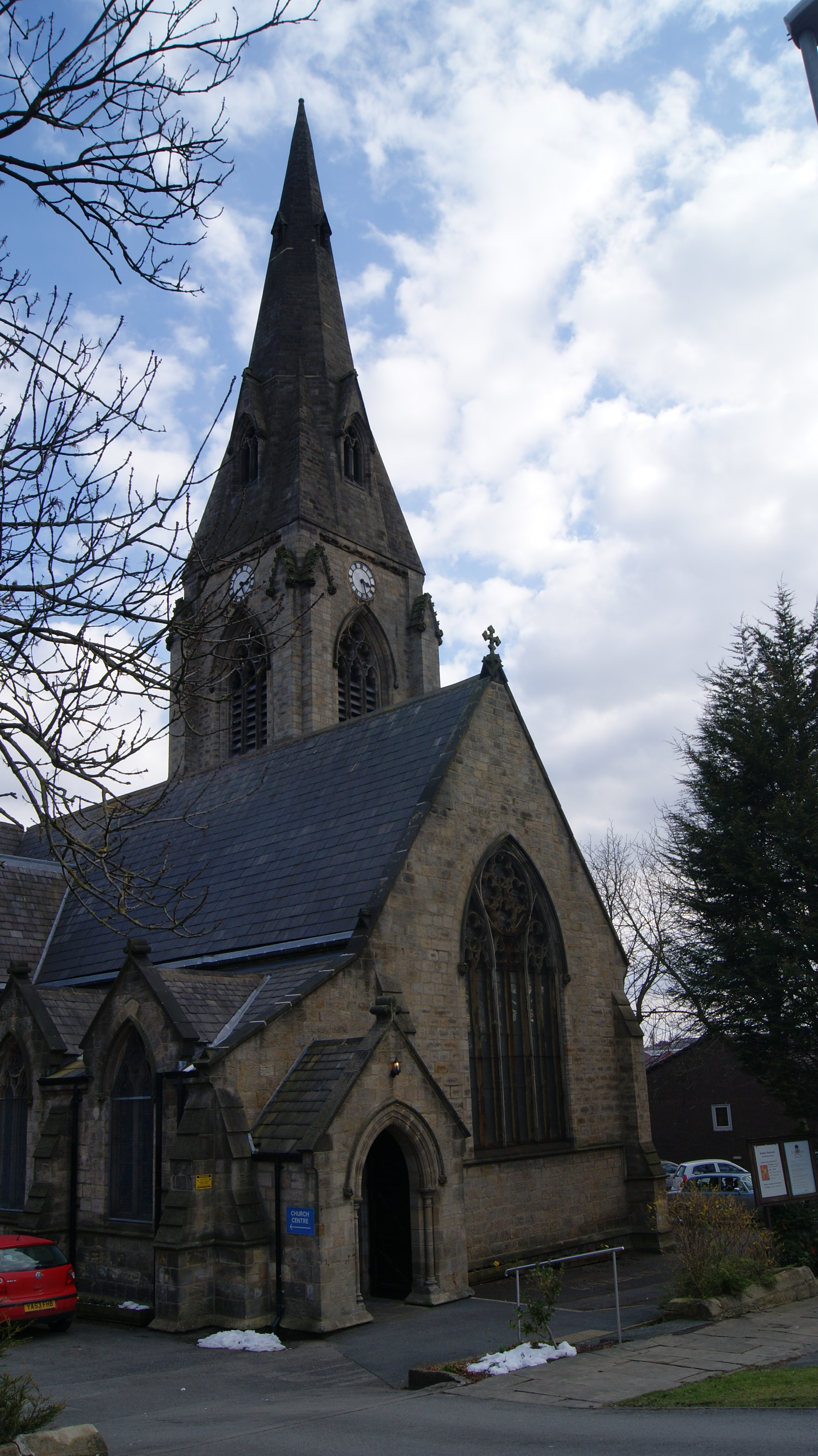 St Matthias' Church, St. Matthias Street, Burley, Leeds, West Yorkshire. Taken on the afternoon of Saturday the 30th of March 2013.